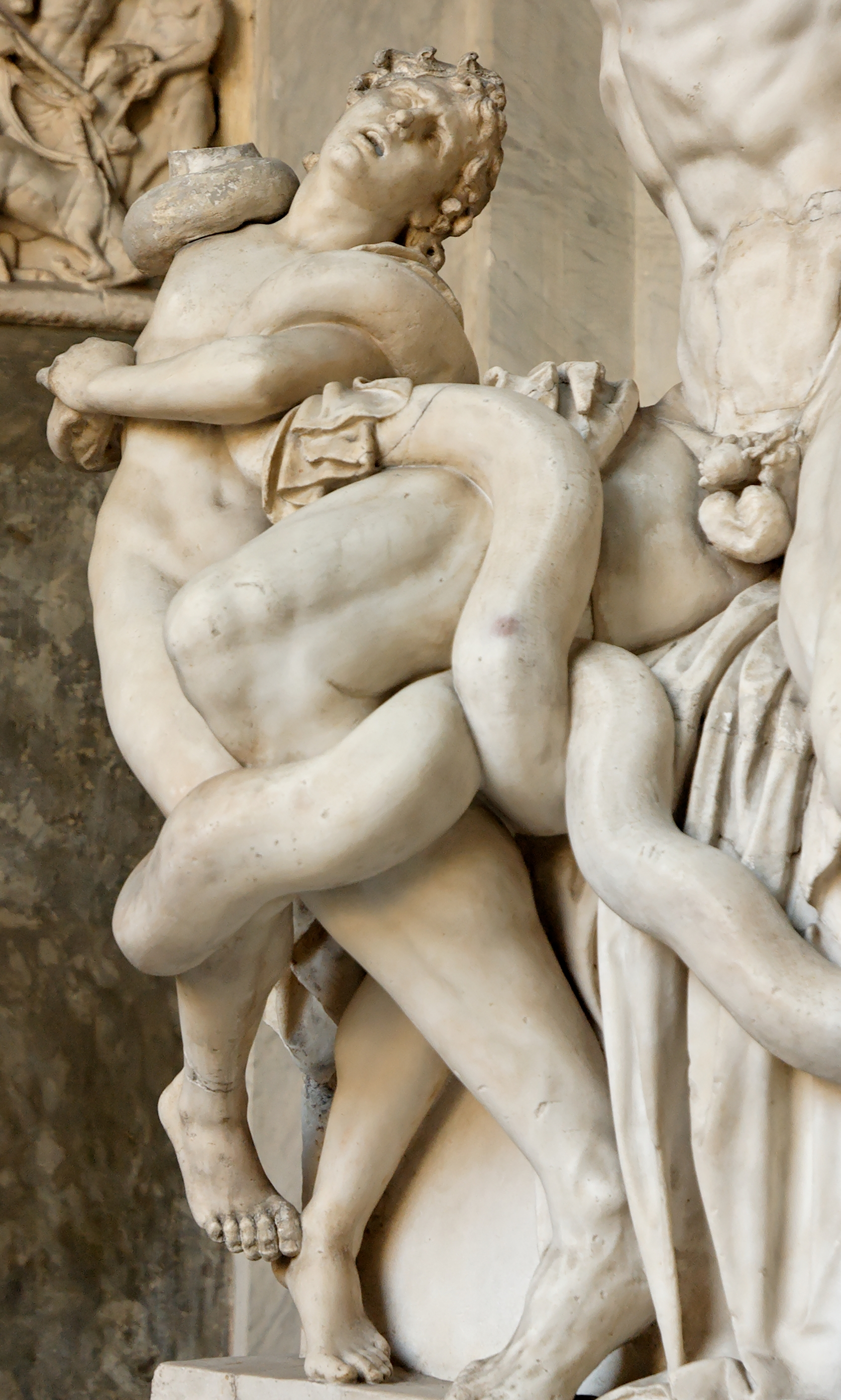 Laocoön and his sons, also known as the Laocoön Group. Marble, copy after an Hellenistic original from ca. 200 BC.